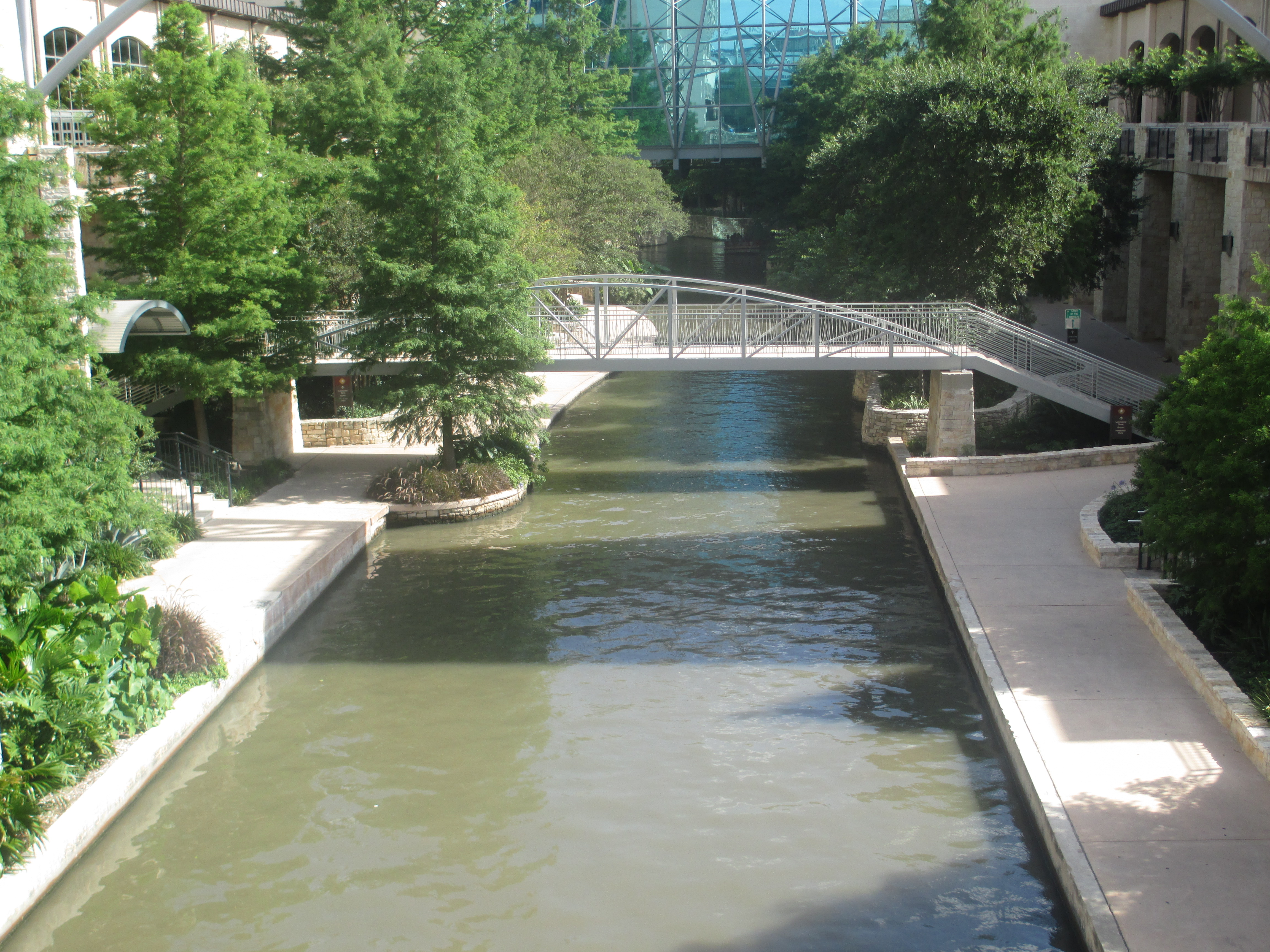 I took photo with Canon camera of San Antonio Riverwalk in San Antonio, TX.